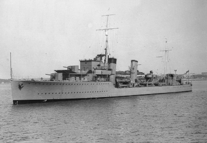 Royal Navy destroyer HMS KEMPENFELT stationary, coastal waters. She was transferred to the Royal Canadian Navy in 1939 as HMCS Assiniboine.